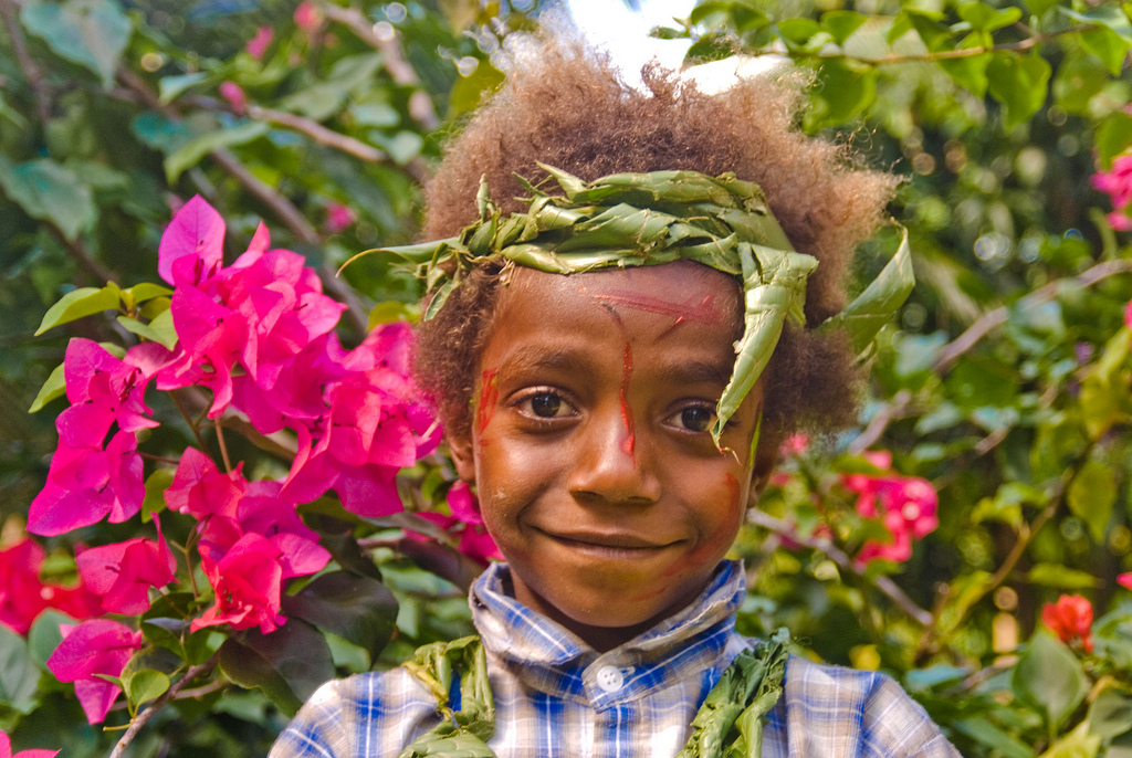 An out-take from a series I took for a local river tour operator. The entire family had put on their kastom dress, and this little boy didn't want to miss out. What a cute kid.